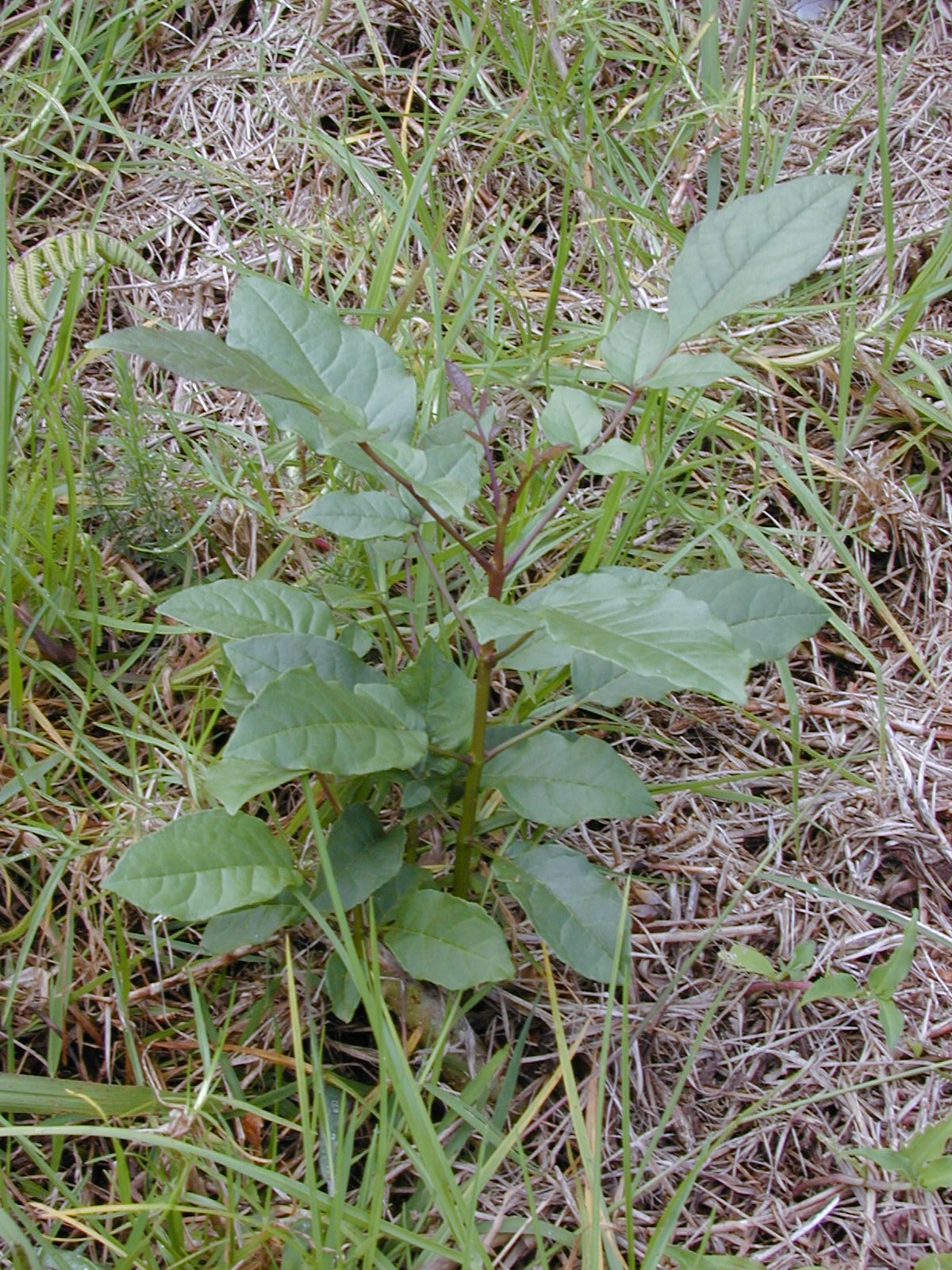 Fraxinus uhdei (seedling). Location: Maui, Makawao Forest Reserve